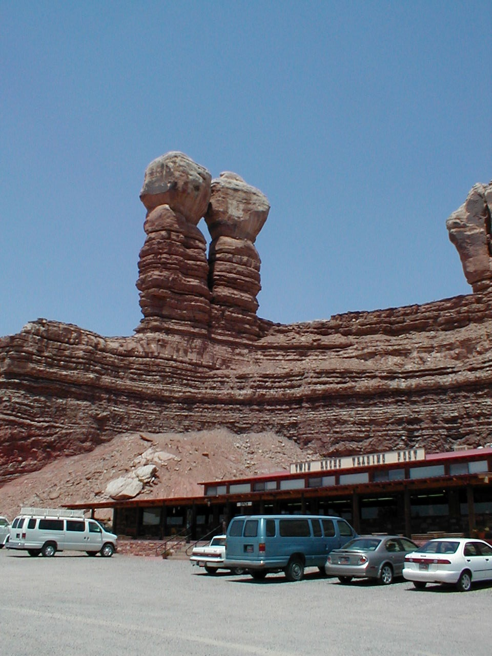 Bluff Historic District Twin Sisters buttes and trading post in Utah.